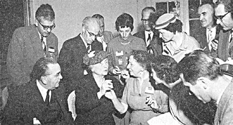 Helen Keller, surrounded by journalists, communicates with her helper Polly Thomson. On the left is Conrad Bonnevie-Svendsen, the Norwegian Chairman of the Rotary International Convention Committee.